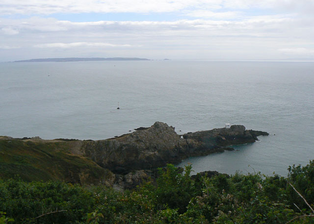 St Martin's Point, Guernsey. Taken from the cliff path around the Jerbourg peninsula. The white structure on the point is the lighthouse with foghorn. The island visible on the left horizon is Sark. The smudge on the right horizon is Jersey.